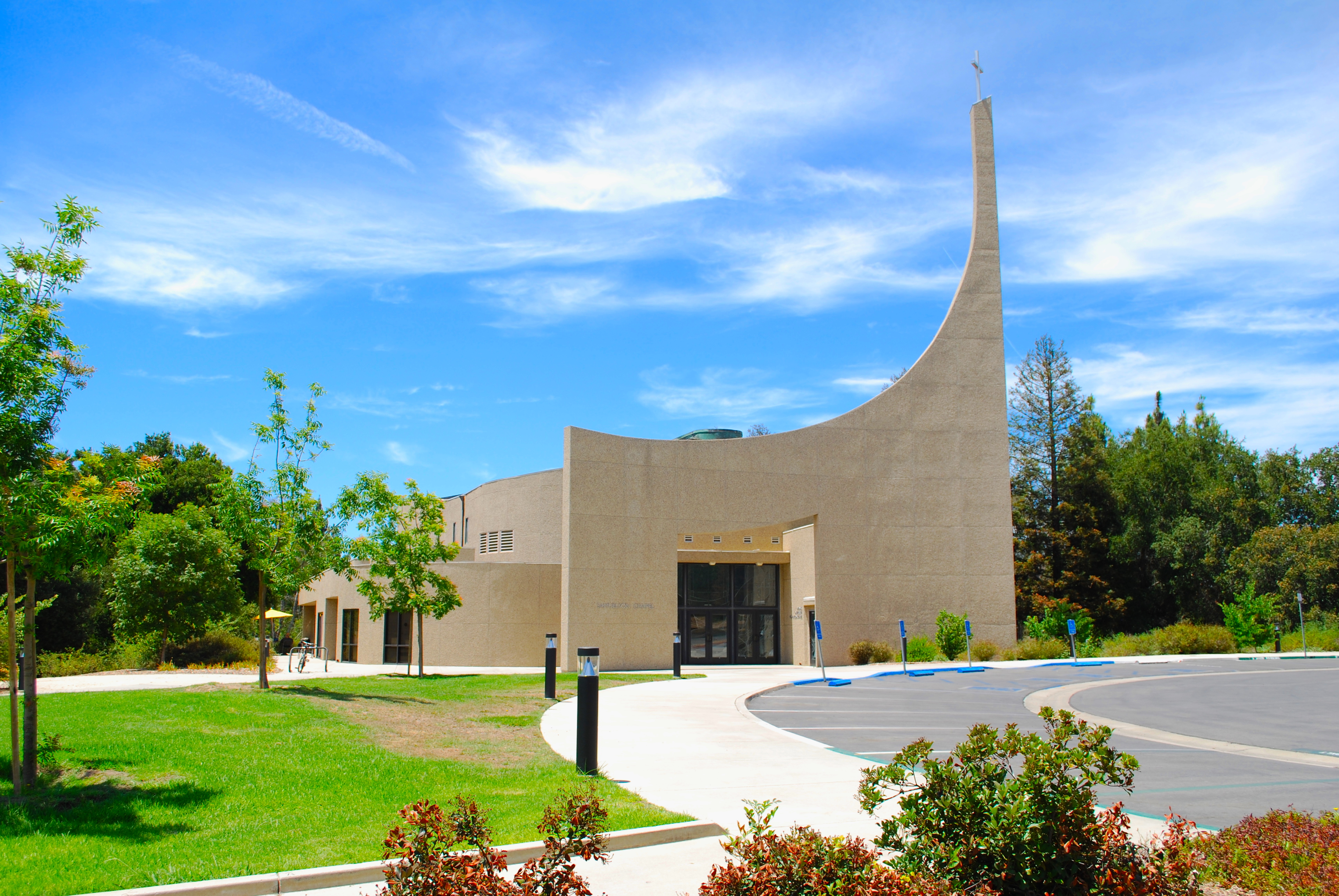 Samuelson Chapel at California Lutheran University (CLU) in Thousand Oaks, CA.